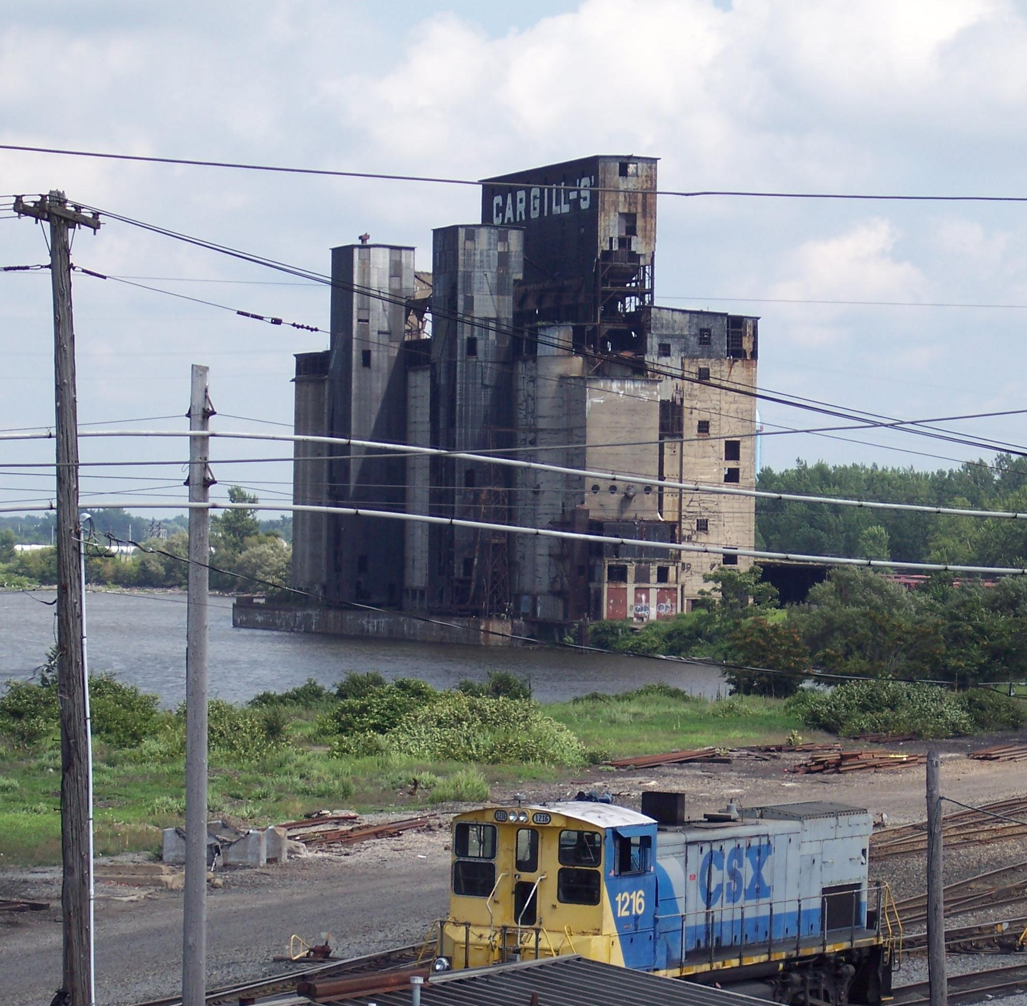 Cargill Superior Elevator, 874 Ohio Street, Buffalo, New York